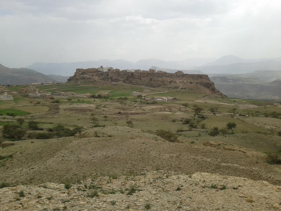 Tariadah Alrriashia